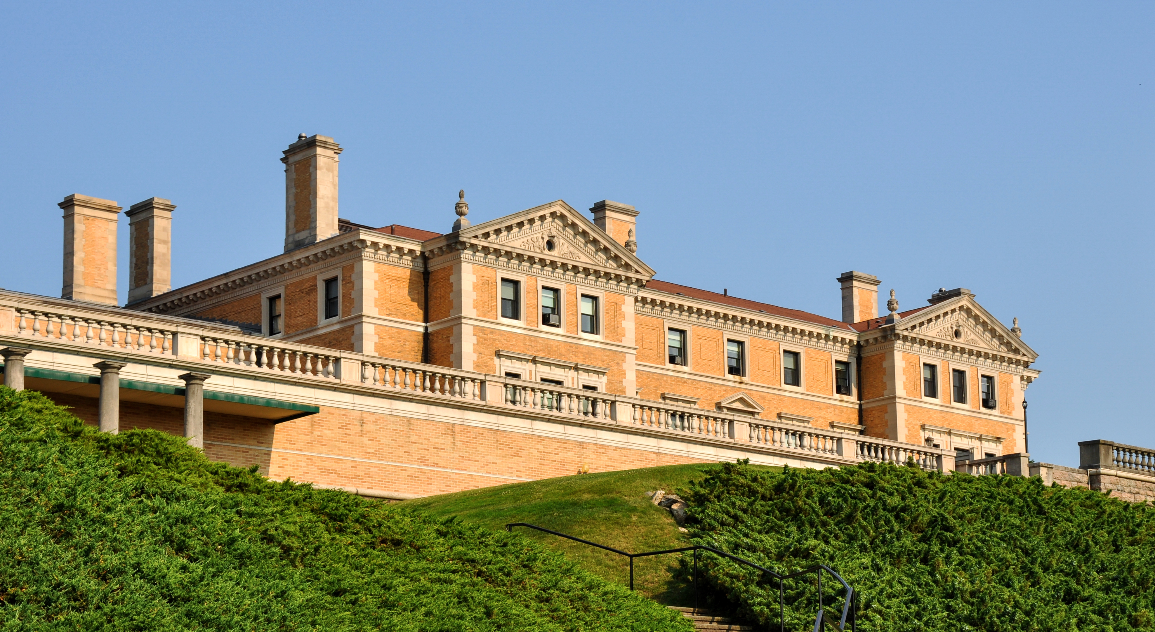 This is an image of Woodlea, the historic mansion in Briarcliff Manor, New York. I took this on June 12, 2014.